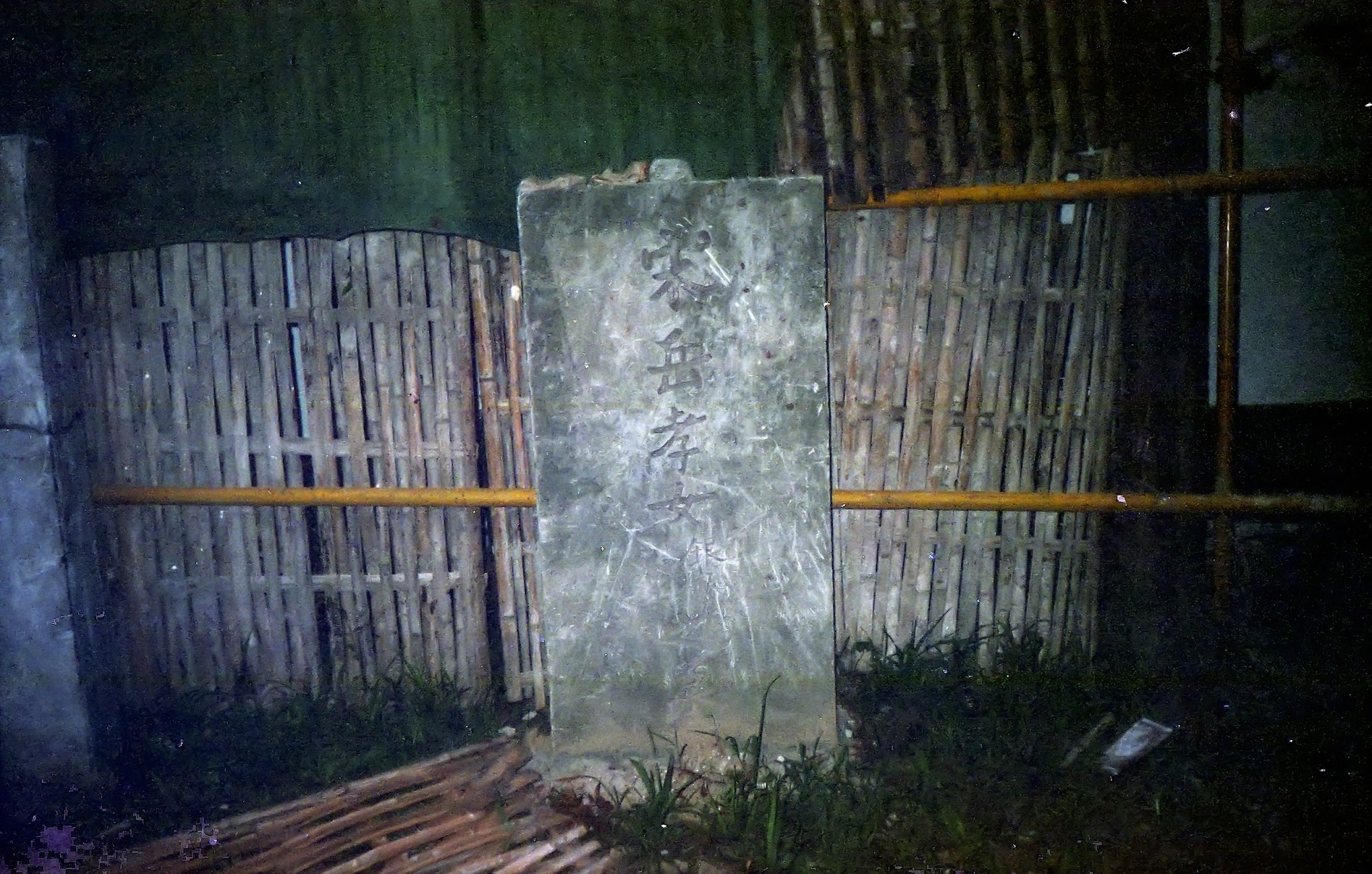 杭州岳孝女銀瓶之墓